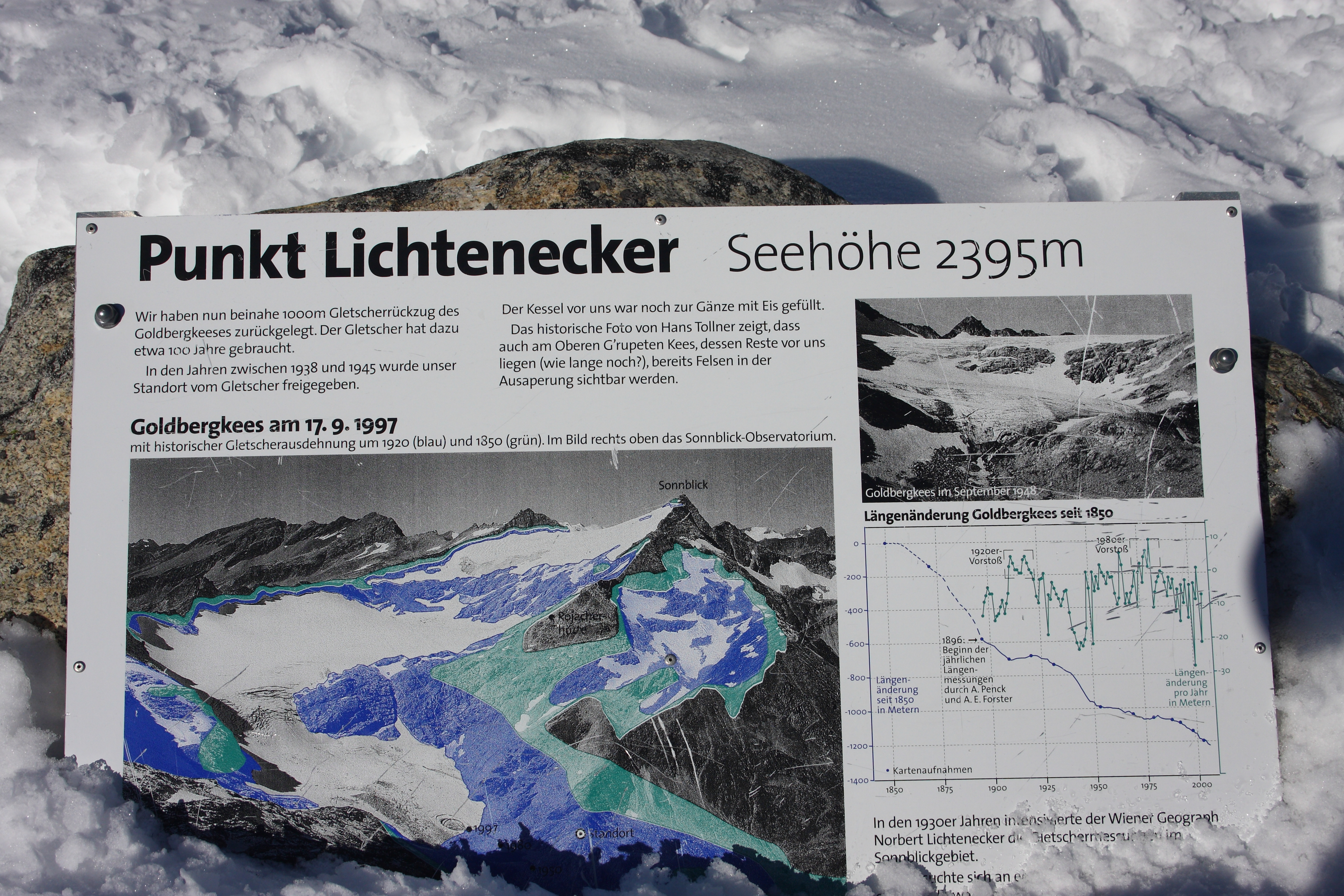 Lichtenecker, Hoher Sonnblick 3106 m , Salzburg, Rauris Austria